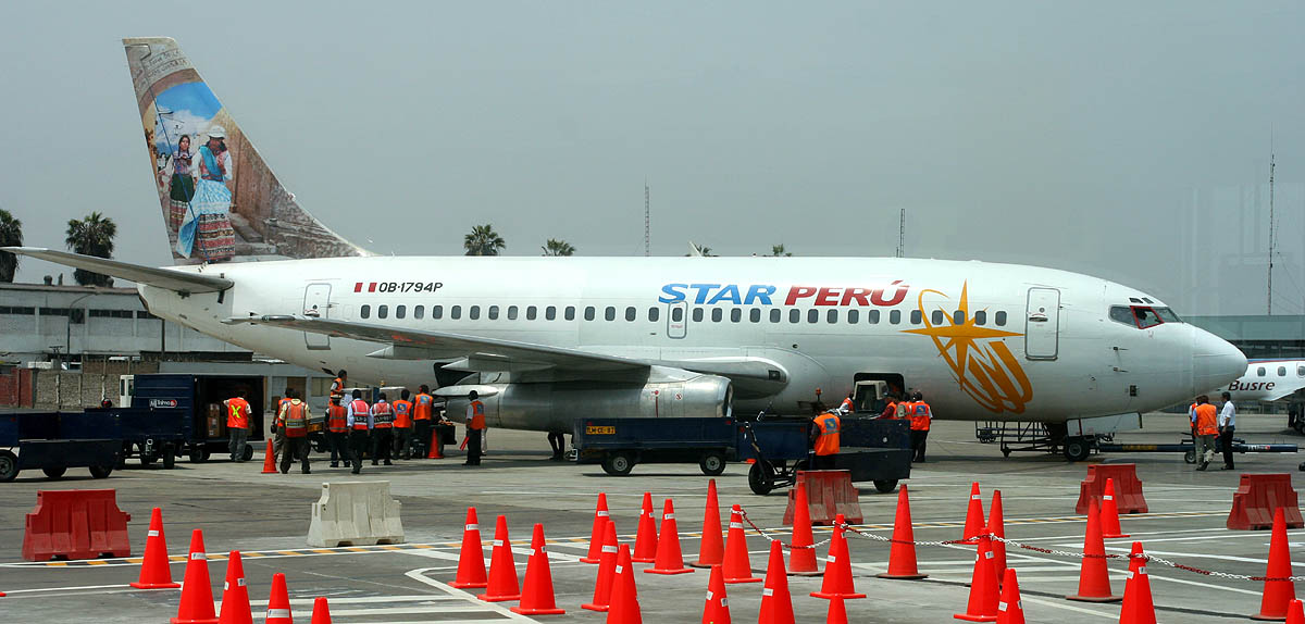 A Star Peru's Boeing 737-200 (OB-1794P) with ethnic livery in flight preparation at the Lima's Jorge Chávez International Airport, Peru.